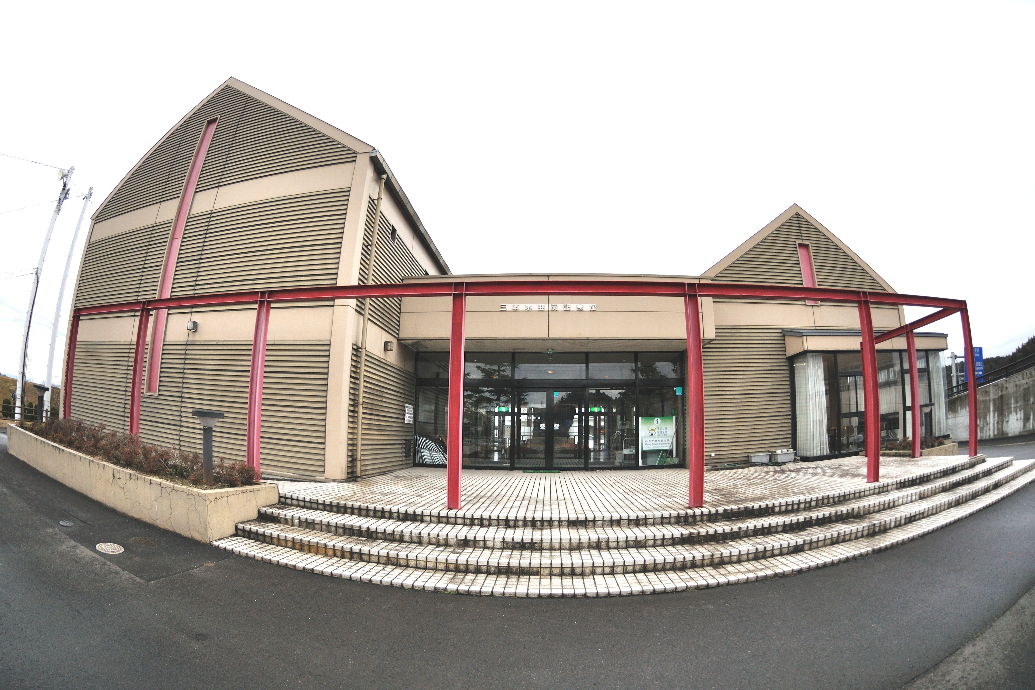 Sanbongi Atan Kinenkan (Sanbongi Lignite Memorial Hall) in Osaki City, Miyagi Prefecture, Japan